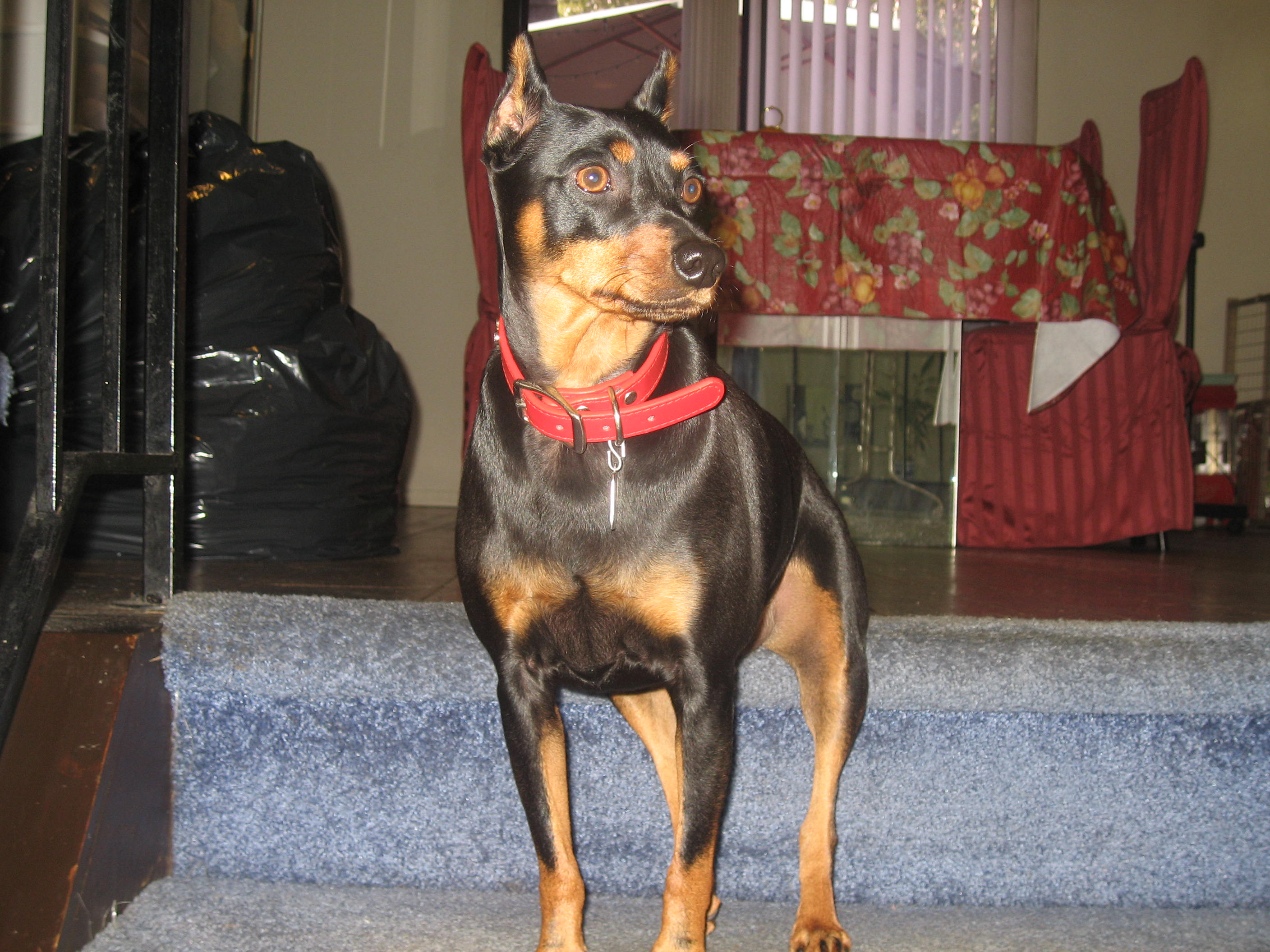 Gotti, a 3 year old Miniature Pinscher with cropped ears.